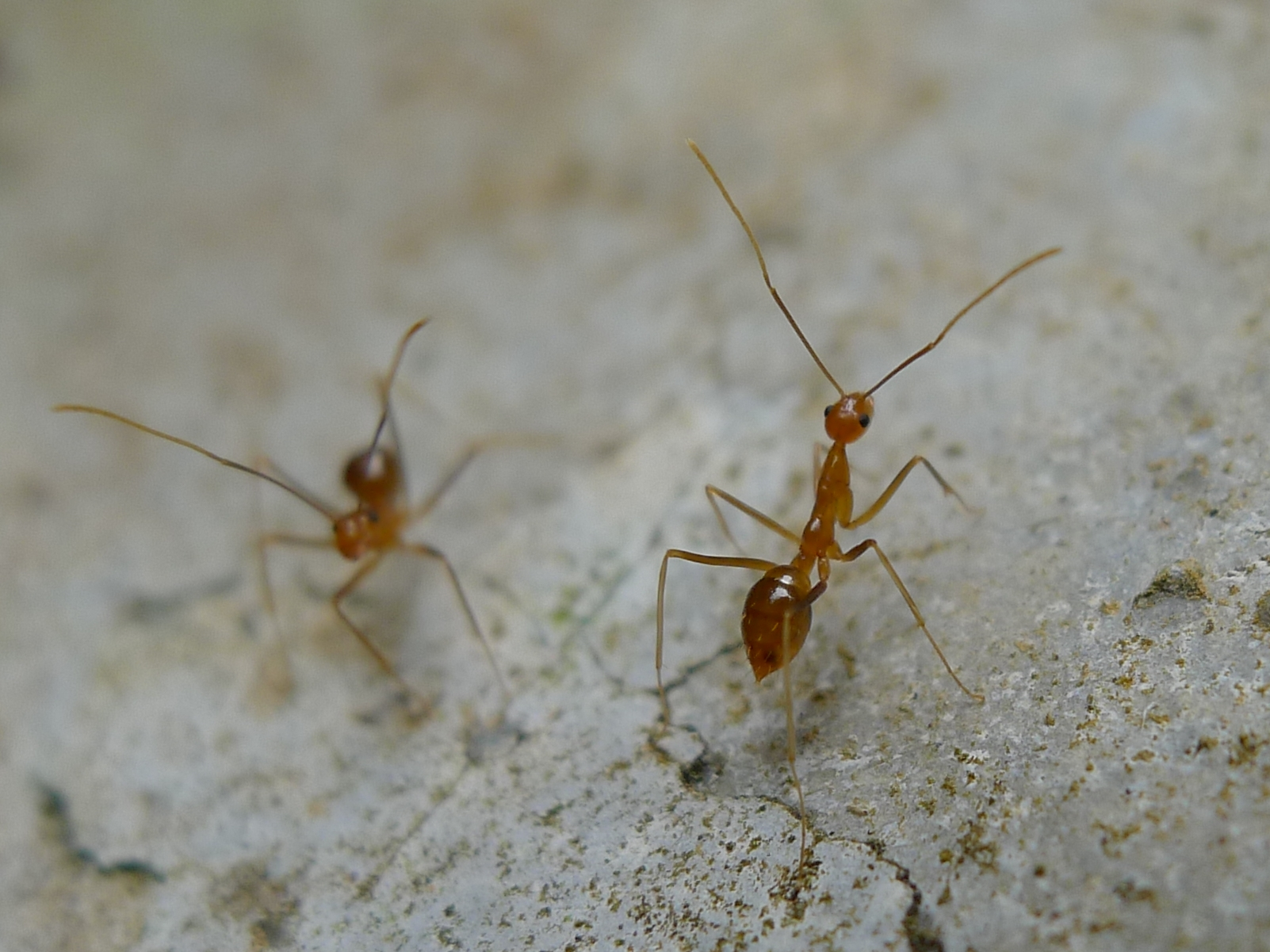 Yellow crazy ant, Anoplolepis gracilipes, is an invasive and destructive pest across the tropics. Poon Saan, Christmas Island, Australia, April 2011.